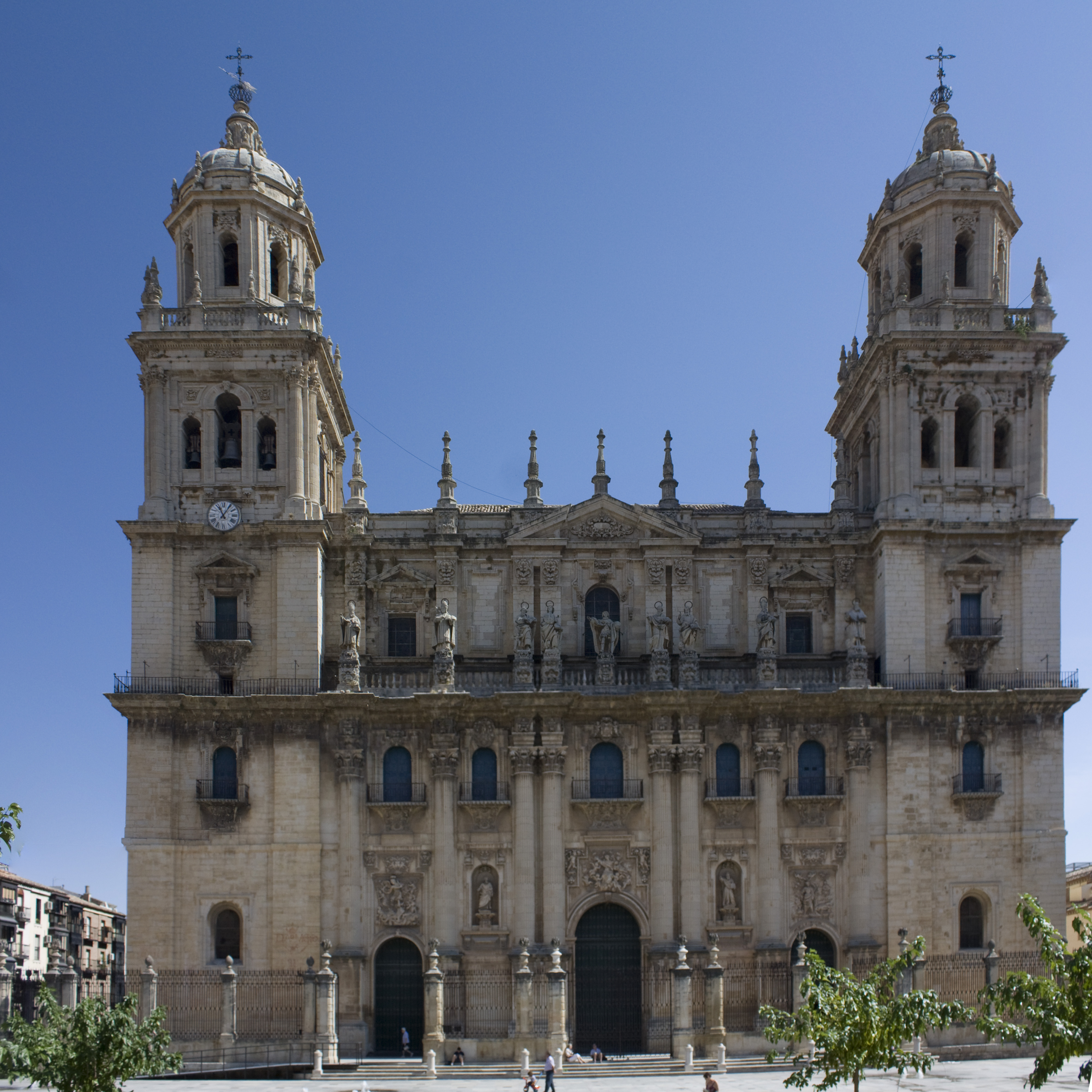 The Assumption of the Virgin Cathedral, view from the Bishop Gonzales' street.